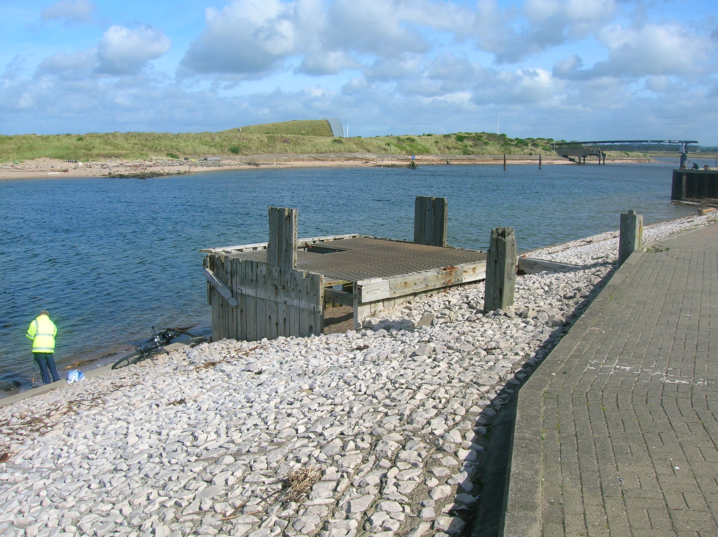 The tank which held the flotation chamber for Boyd's Automatic tide signalling apparatus. Irvine, North Ayrshire, Scotland. The 'Big Idea' (now closed) building is in the background. Rosser 19:07, 26 August 2007 (UTC)